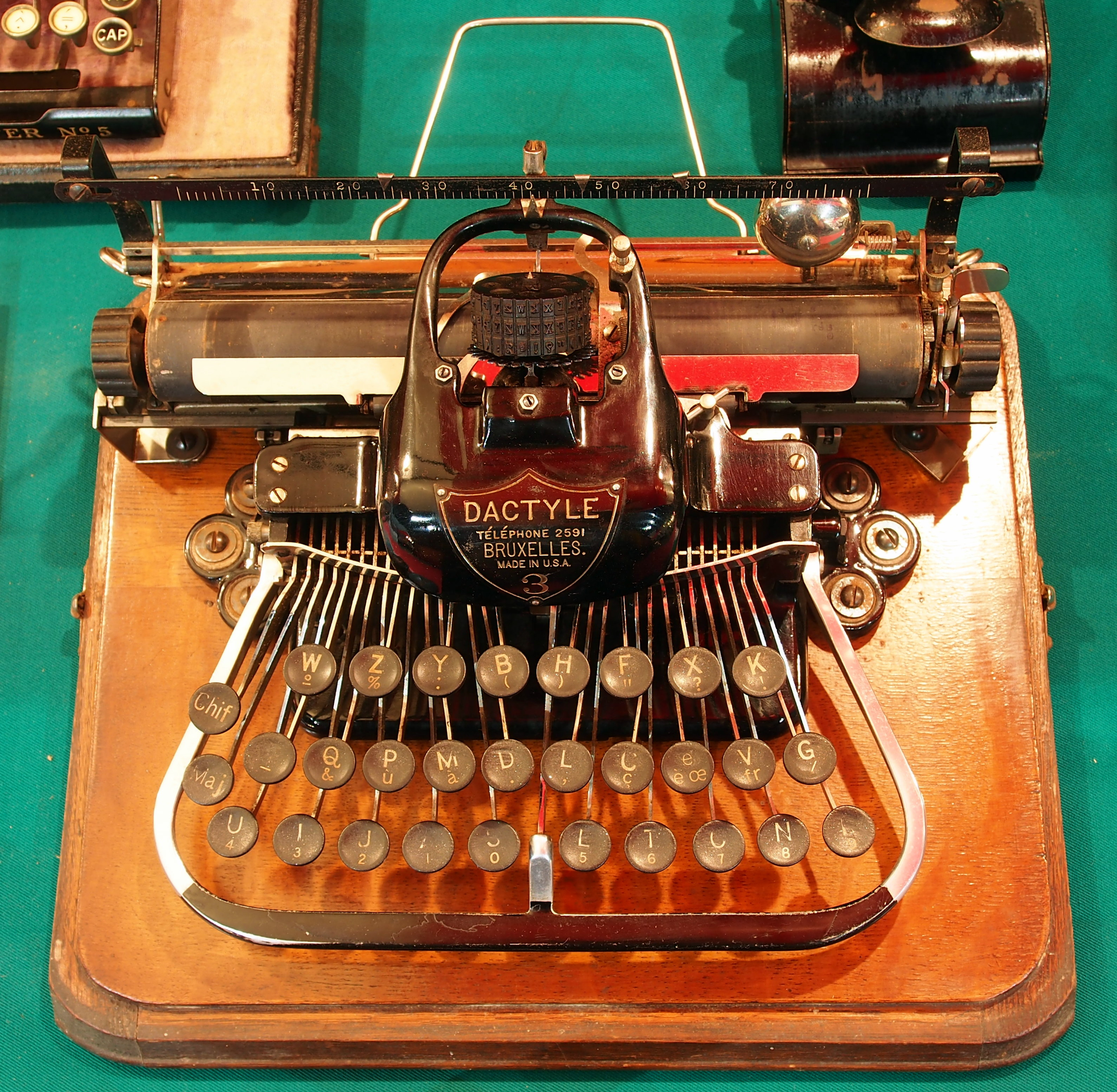 Typewriter of a private collection of Rienk Monsma.